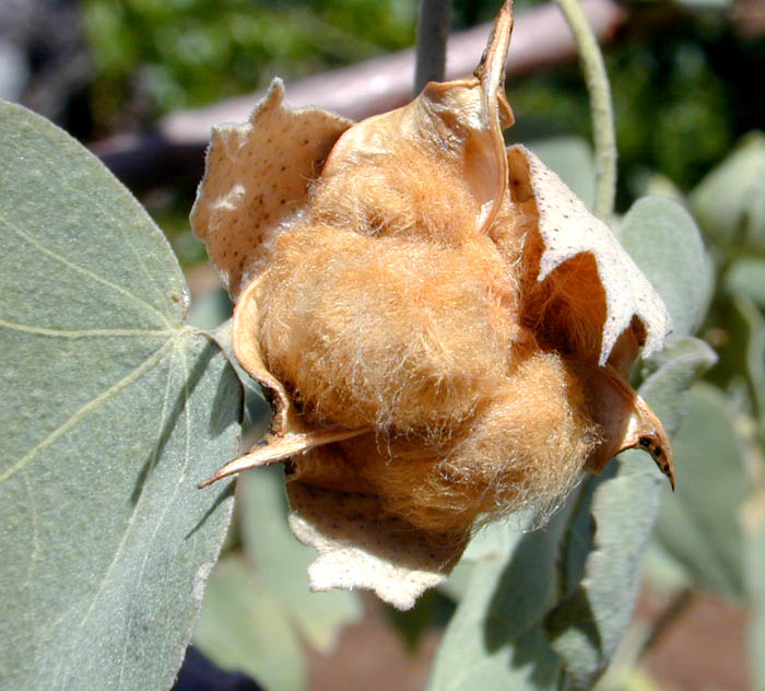 Close up of cotton boll of Gossypium tomentosum, ma‘o or Hawaiian native cotton; photographed at Na Pohaku o Hauwahine, O‘ahu.